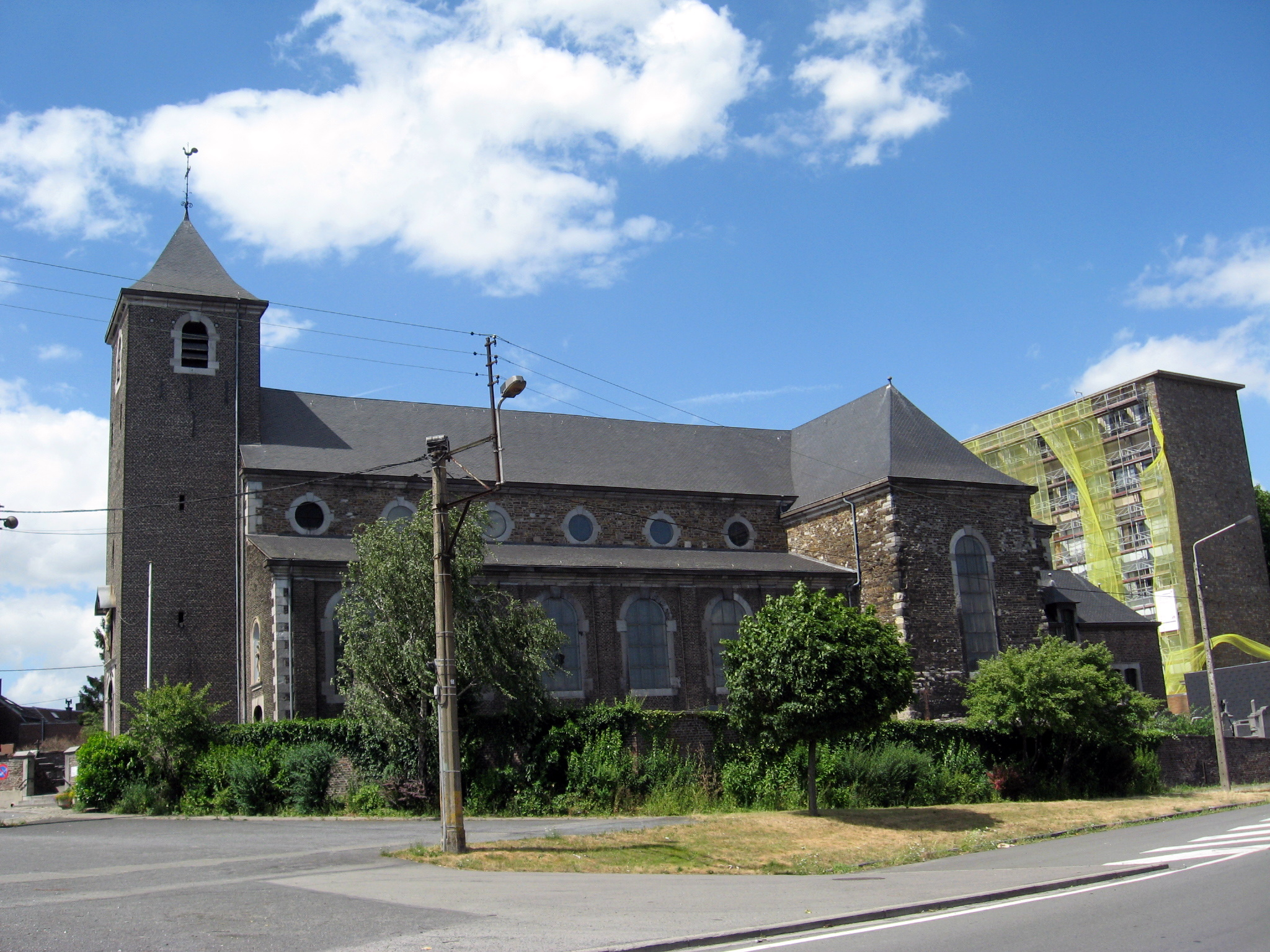 Church of Our Lady of La Licour in Herstal, Liège, Belgium